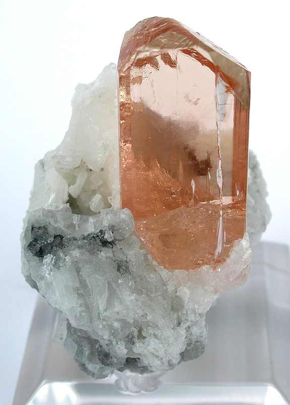 Topaz Locality: Katlang, Mardan District, North-West Frontier Province, Pakistan (Locality at ) Size: miniature, 4.5 x 3.5 x 3.5 cm Topaz This quite literal "gem" has the "imperial" style elongation and termination we more often see from Brazil, but it is from the classic pegmatite in Katlang. It features a 3 x 2 x 1.5 cm gem crystal of totally limpid clarity and of high quality in every manner (color, termination, form, condition). It is fully terminated and perched floating in an albite matrix, overall 4.5 x 3.5 x 3.5 cm. You can look through the crystal at all points. It is complete on the other side, too. the photo is a little fuzzy because it had some sticker adhesive still on it - sorry, i only just noticed and removed it! Photo B is more accurate for clarity and lustre - it looks lik epolished glass in person! I left the smudged hoto in to emphasize how dramatically pure and bright the piece is, tha tyou can see even such a small smudge put on the surface, against the background of clarity. It is a superior miniature of this style and shape of topaz from the region, i feel, for the clarity, and the aesthetic perch on matrix. Old piece, probably came out 10 years ago, which I only recently bought as a big clunker and was able to trim down to this well-exposed, better size.